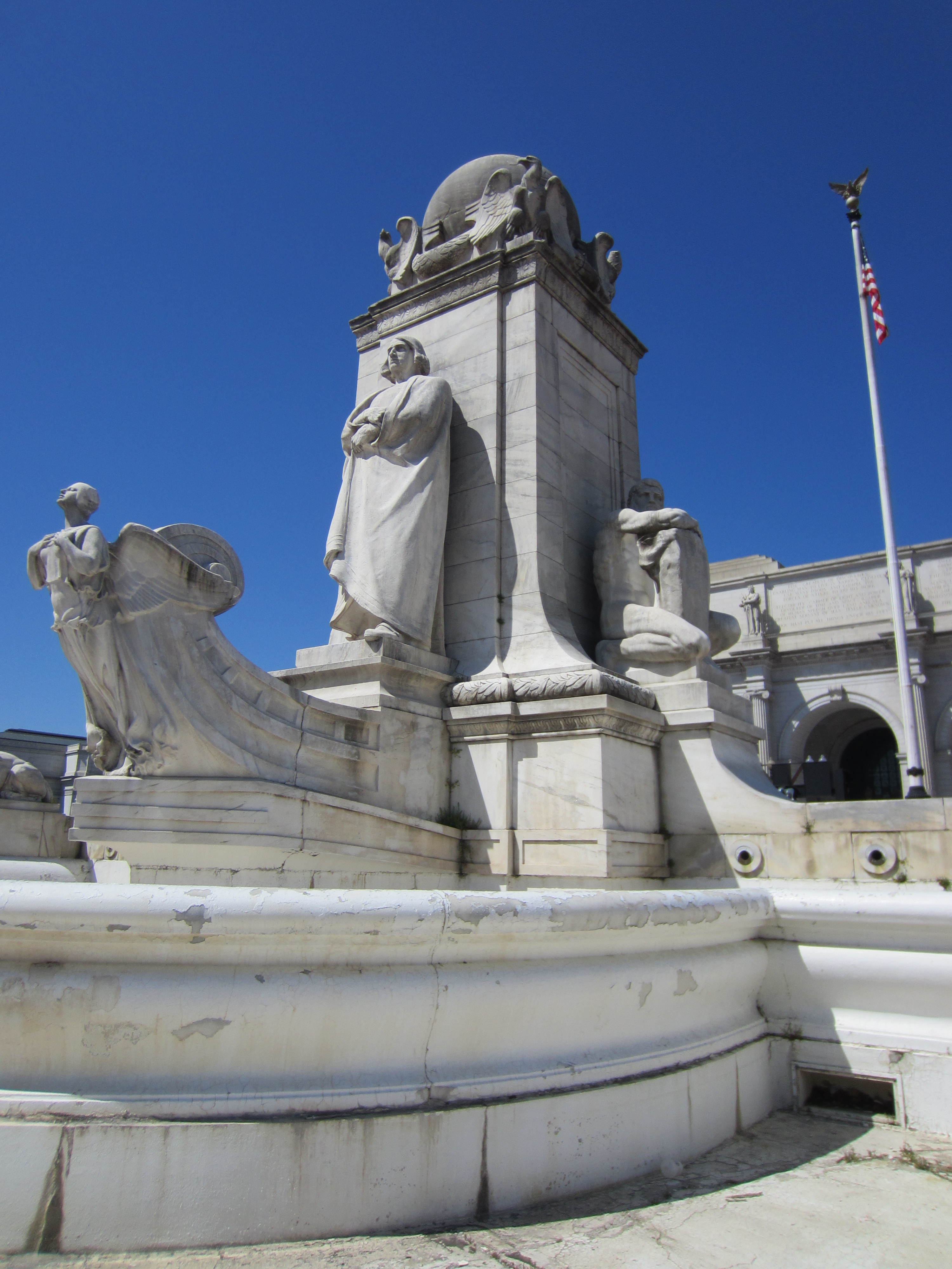 Columbus Fountain, Washington, D.C. (2013)